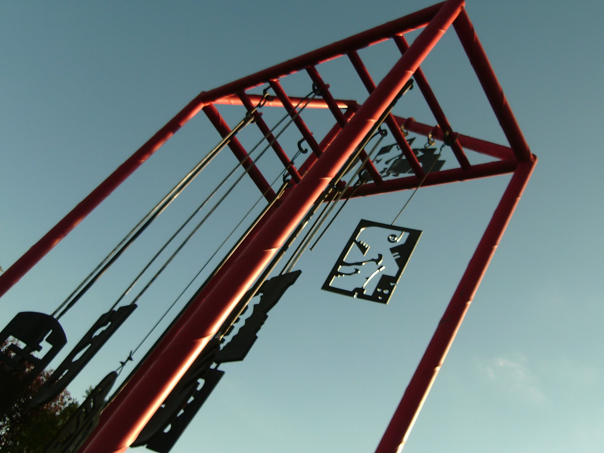 sculptors in Dunaujvaros, Hungary